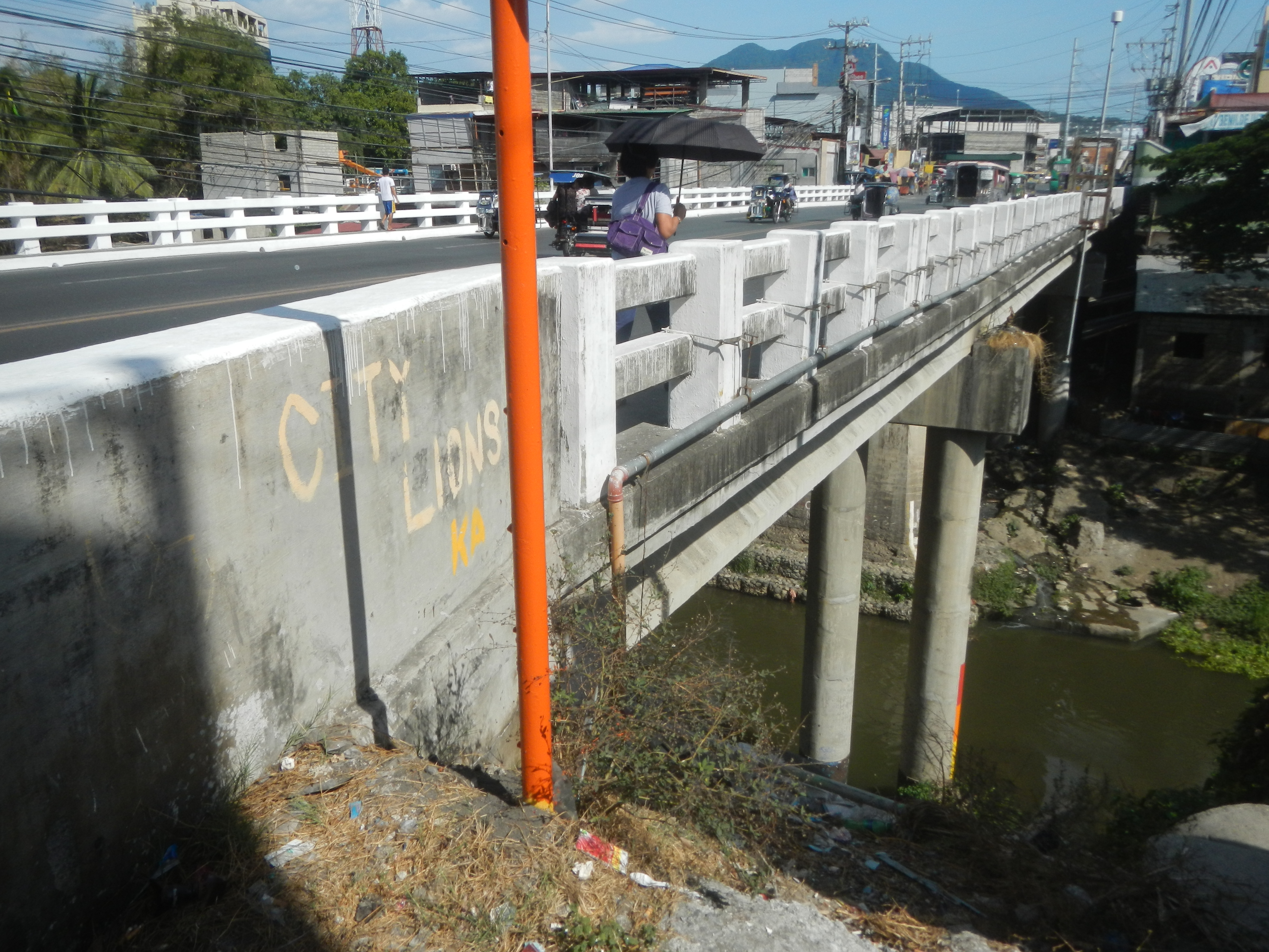 AMA Computer University AMA Computer College Calamba Campus Social Security System (Philippines) Social Security System Calamba, Laguna Branch National Highway (Calamba Poblacion-Mayapa) of Maharlika Highway (Calamba City section) Pan-Philippine Highway; in Barangays Parian, Calamba, Parian 14°12'53"N 121°8'55"E Lawa 14°12'20"N 121°8'39"E Calamba, Laguna from Calamba Poblacion (Note: Judge Florentino Floro, the owner, to repeat, Donor Florentino Floro of all these photos hereby donate gratuitously, freely and unconditionally Judge Floro all these photos to and for Wikimedia Commons, exclusively, for public use of the public domain, and again without any condition whatsoever).